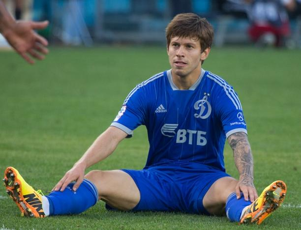 Fyodor Smolov with FC Dynamo Moscow in 2013.